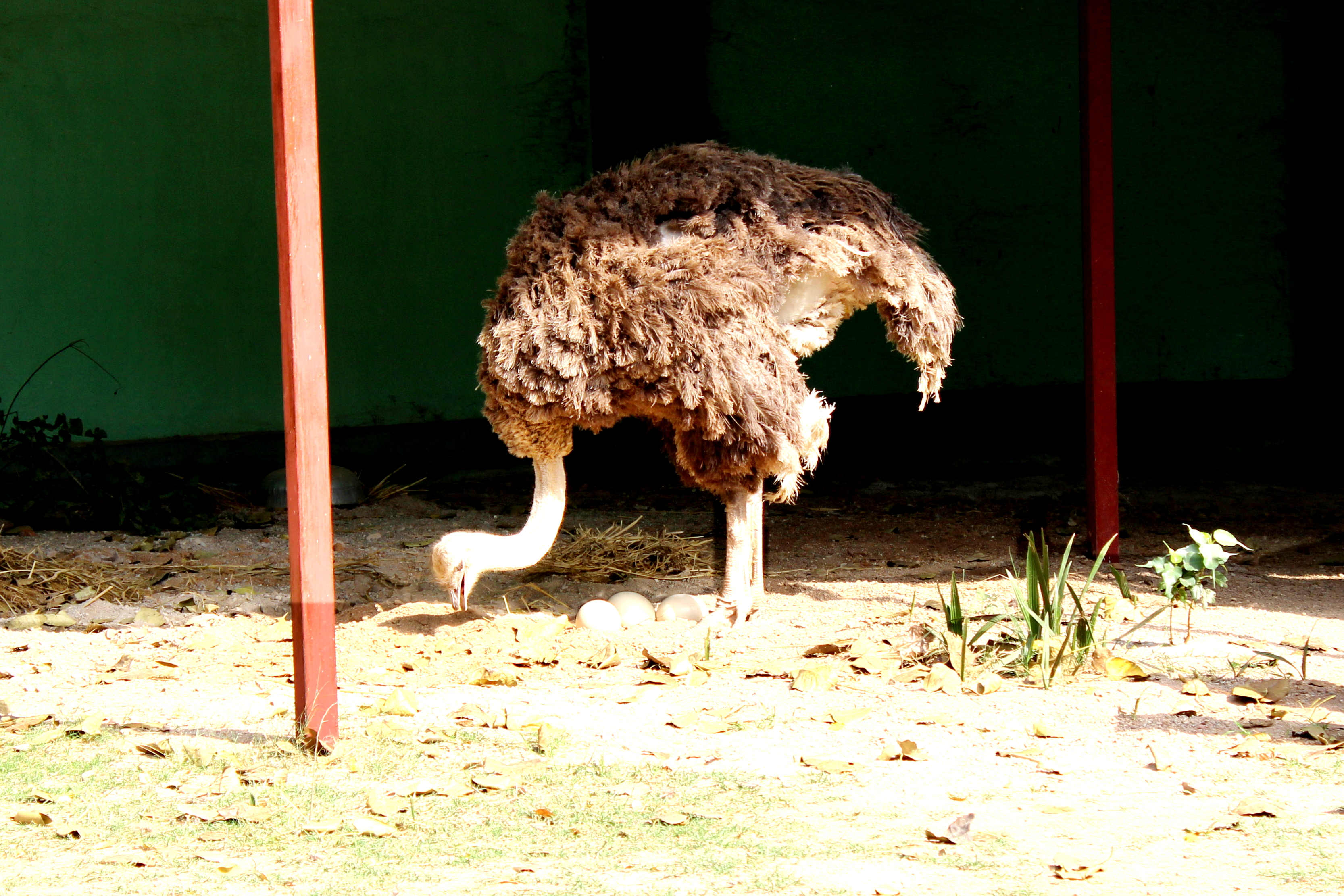 an ostrich with eggs, from Gwalior zoo, India